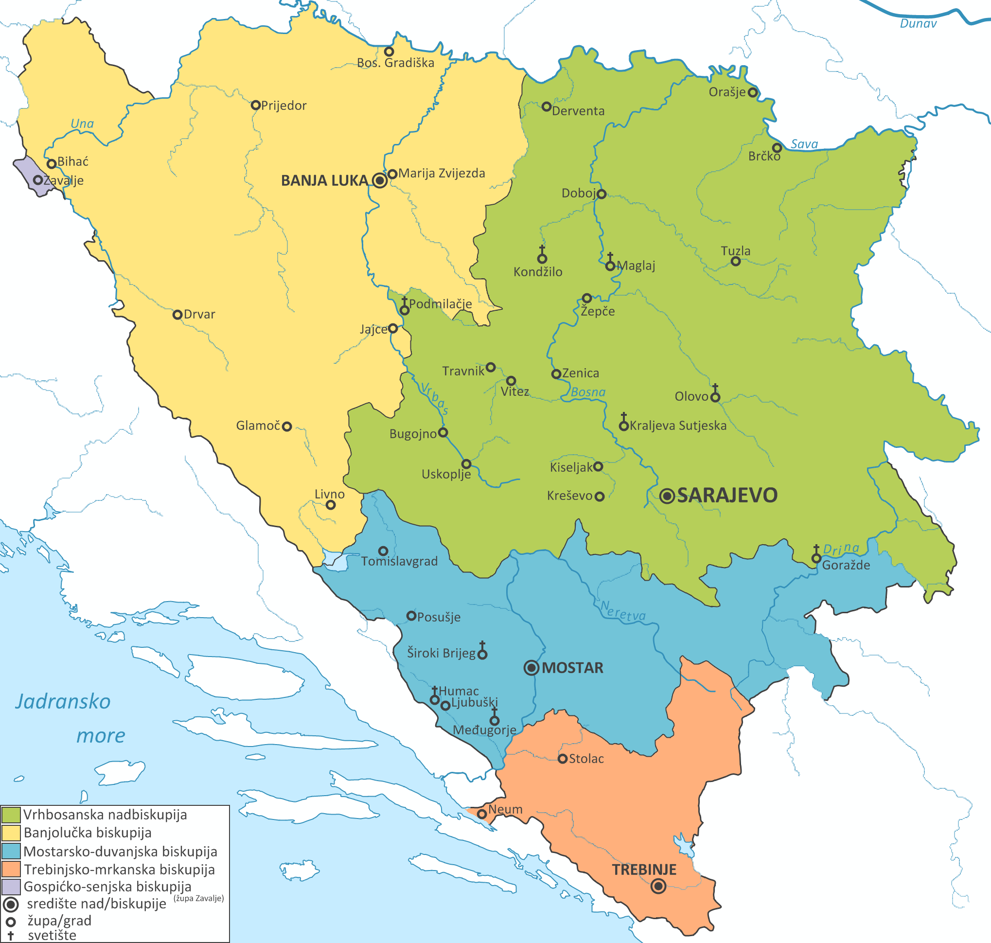 Map of Dioceses in Bosnia and Herzegovina (Croatian version)